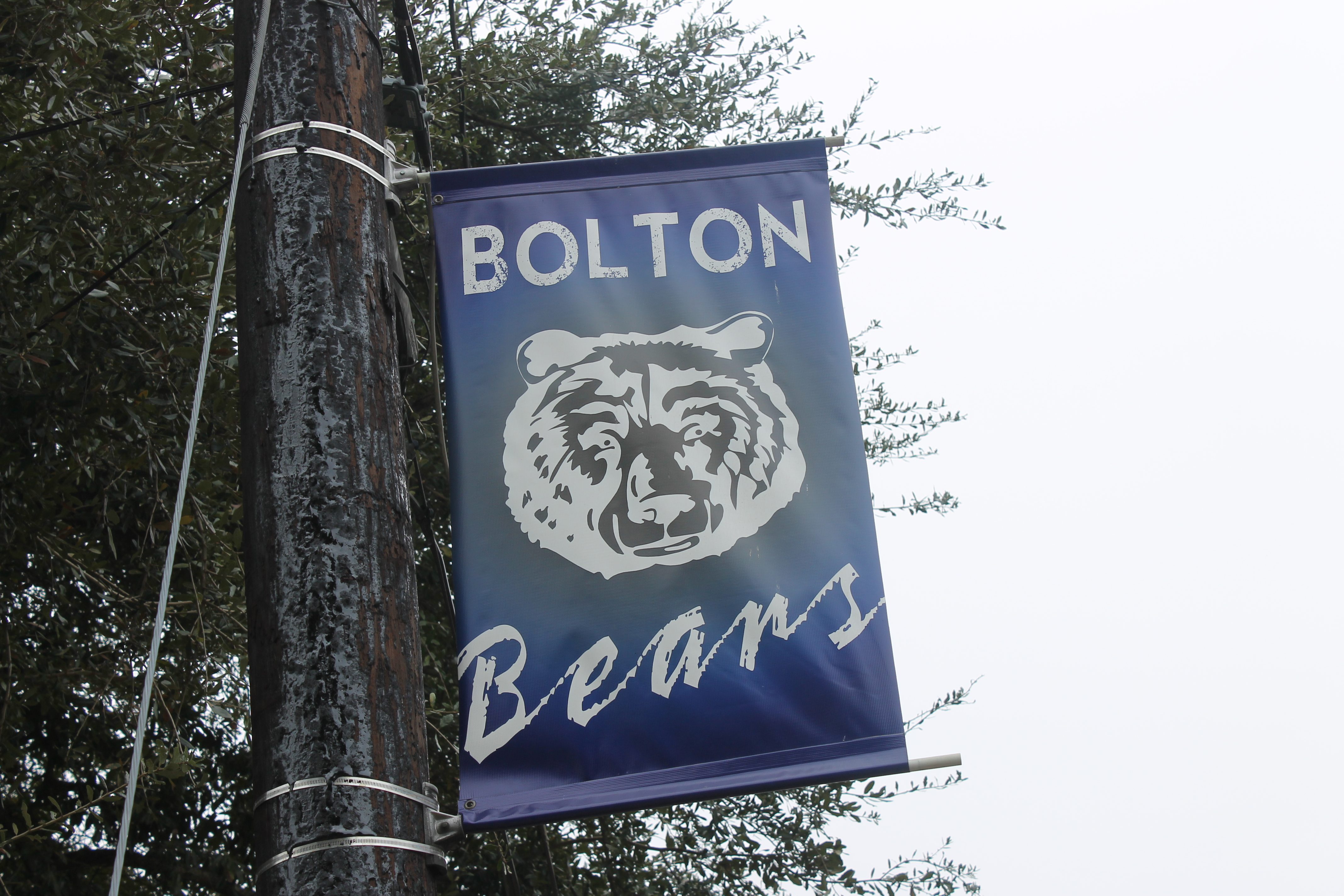 Insignia of the Bolton High School Bears in Alexandria, LA